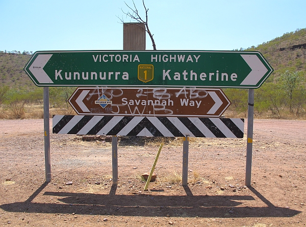 Victoria Highway (Australia), Roadsign